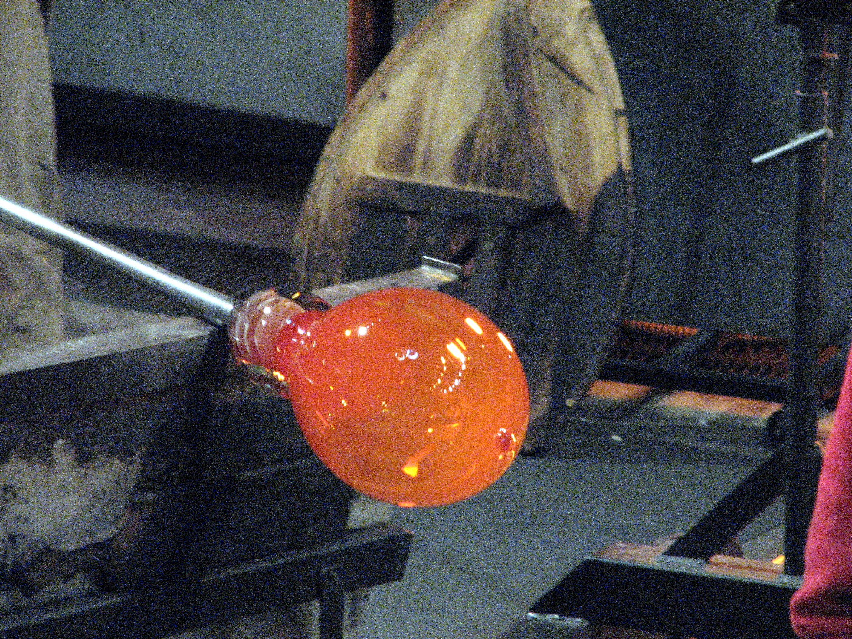 A peice of glass as it's being worked on. The glow is because it's so hot. So hot I need two T's. HoTT.